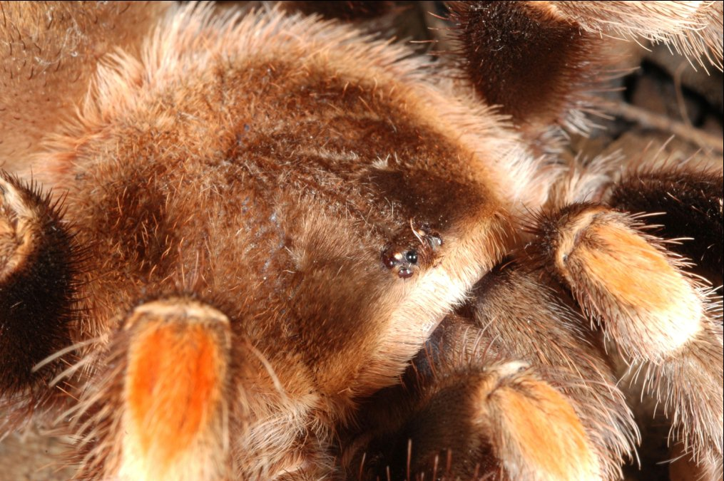 Brachypelma smithi